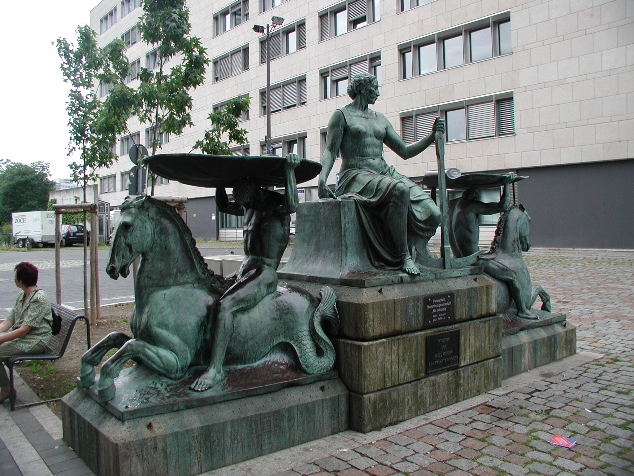 Cologne, skulpture "Schifffahrtsbrunnen" 1912